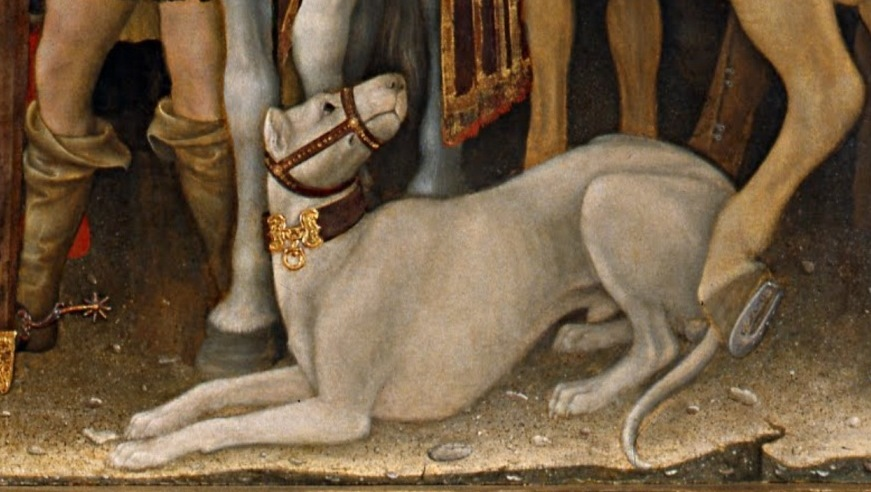 Italian medieval "Alaunt" dog type in the Magi's cortege (Adorazzione dei magi) detail, 1423, by Gentile Fabriano